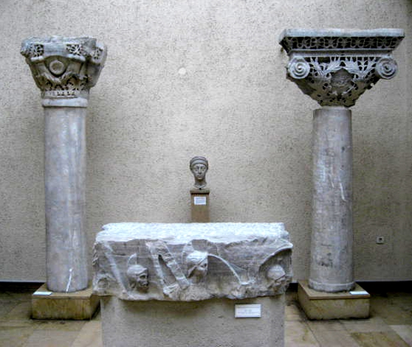 Fragment of memorial column to Emperor Theodosius I. Marble, Beyazit, date between 386-393 CE. Inv. 73 76 T.